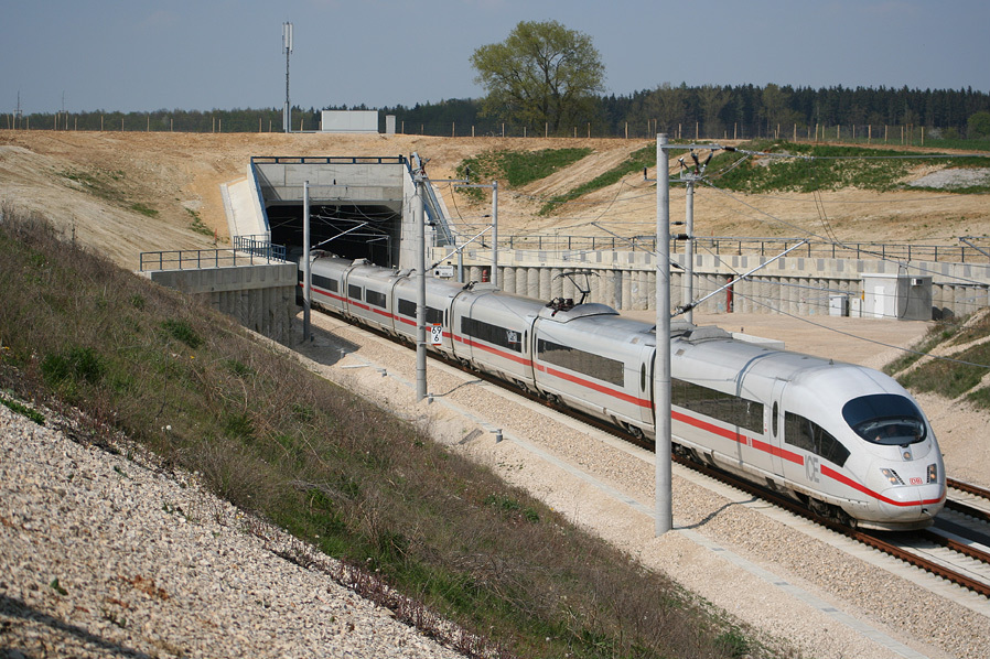 An ICE 3 train leaves the south enteance to the Denkendorf-Tunnel, headed for Munich, on the Nuremberg-Ingolstadt high-speed railway line